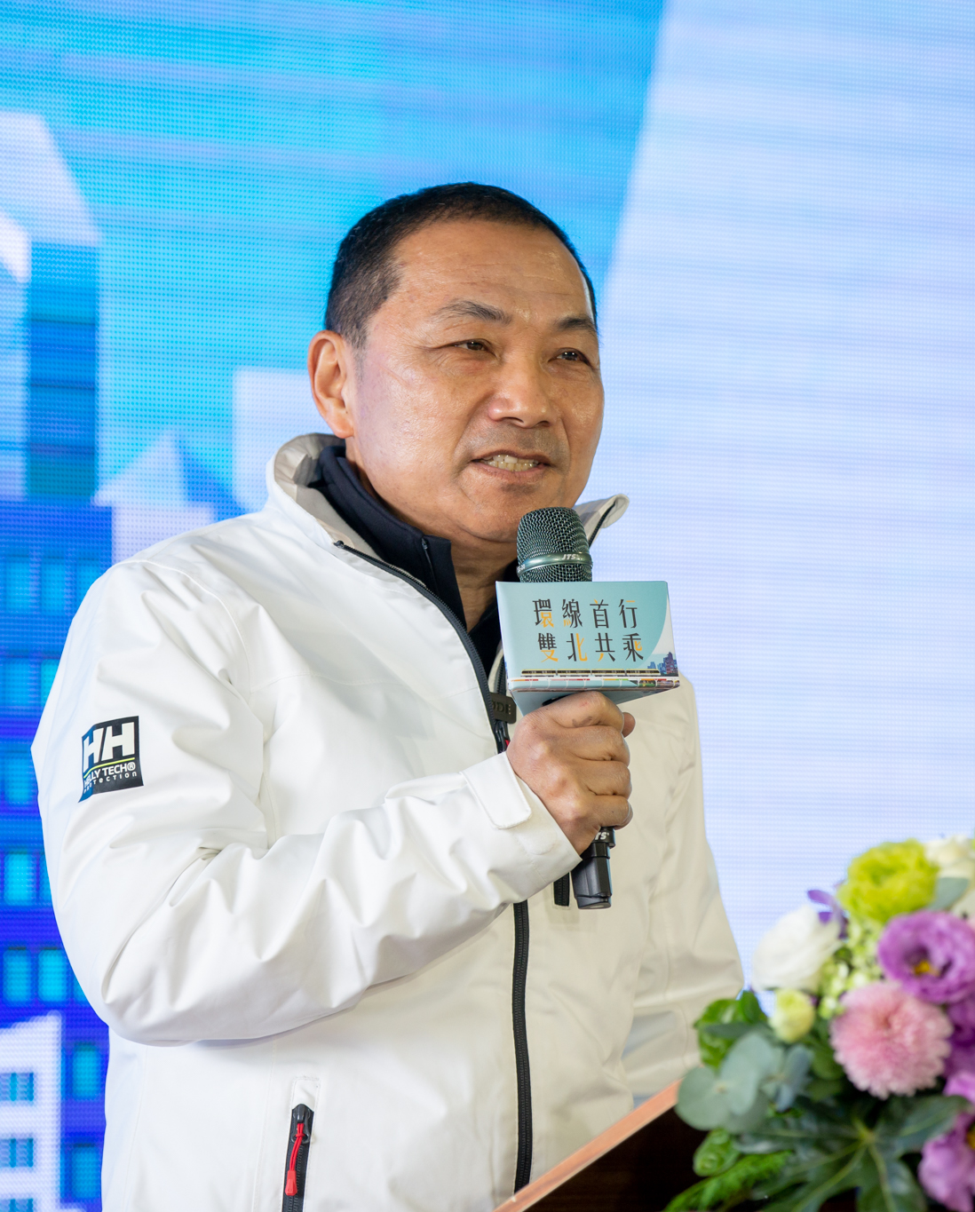 Official Photo by Wang Yu Ching / Office of the President